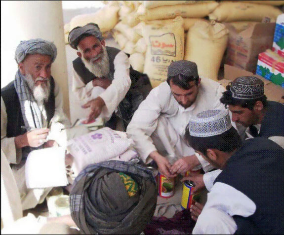 Afghan farmers turn in seed and fertilizer vouchers through a U.S. program that seeks to replace poppy with legal crops. Keywords: Afghan farmers seeds fertilizer replacing poppy legal crops men.